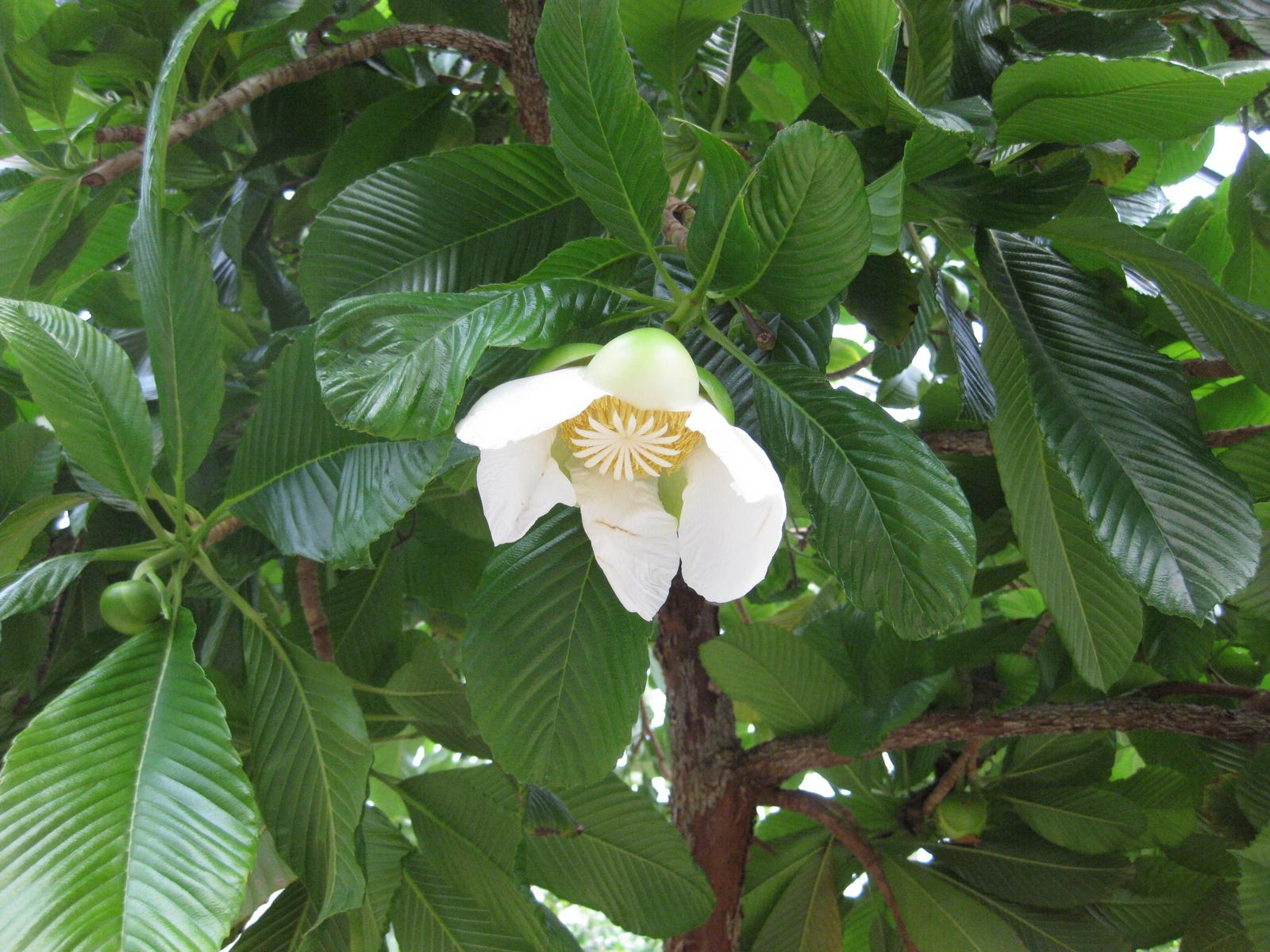 Photographed at Huntington Gardens (Los Angeles, California) in August